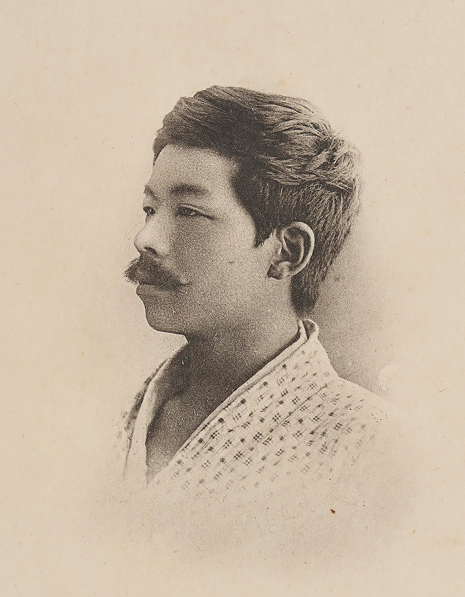 Portrait of Japanese painter Aoki Shigeru (青木繁)